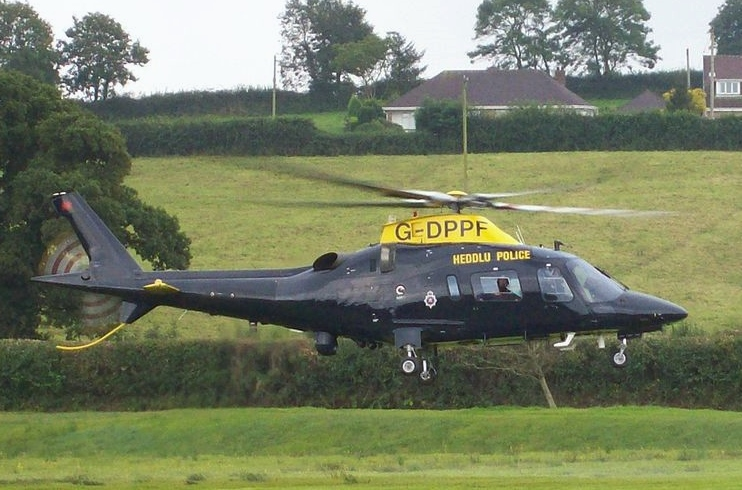 Dyfed-Powys Police Air Support Unit Helicopter (X-Ray 99) Demonstration at Dyfed-Powys Police HQ Open Day September 28th 2008